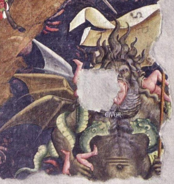 Orcagna, Triumph of Death, Santa Croce, Florence, detail